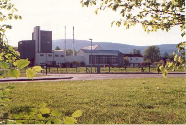 Teaninich Distillery